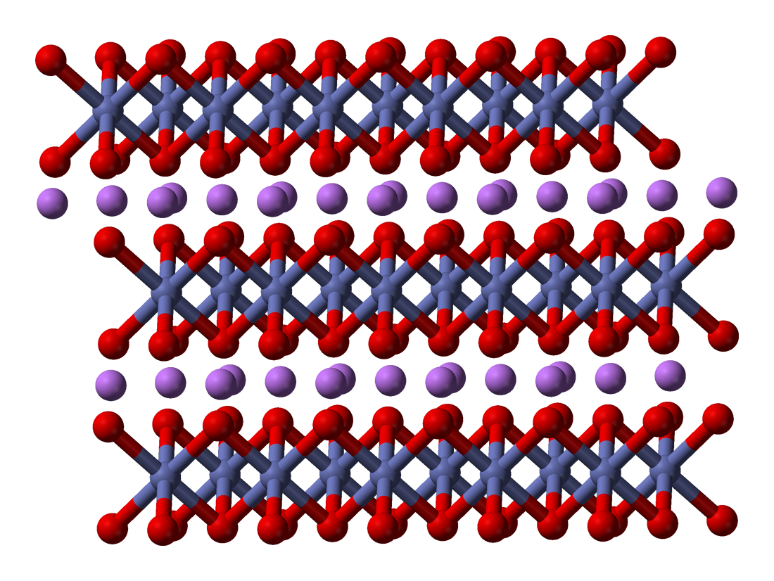 Ball-and-stick model of part of the crystal structure of lithium cobalt oxide, LiCoO2. Structural data from Yang Shao-Horn, Laurence Croguennec, Claude Delmas, E. Chris Nelson and Michael A. O'Keefem (July 2003). "Atomic resolution of lithium ions in LiCoO2". Nature Materials 2 (7): 464 - 467. Image generated in Accelrys DS Visualizer.